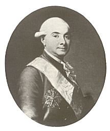 Danish numismatist, director of the Royal Theatre Christian Frederik Numsen (1741-1811)